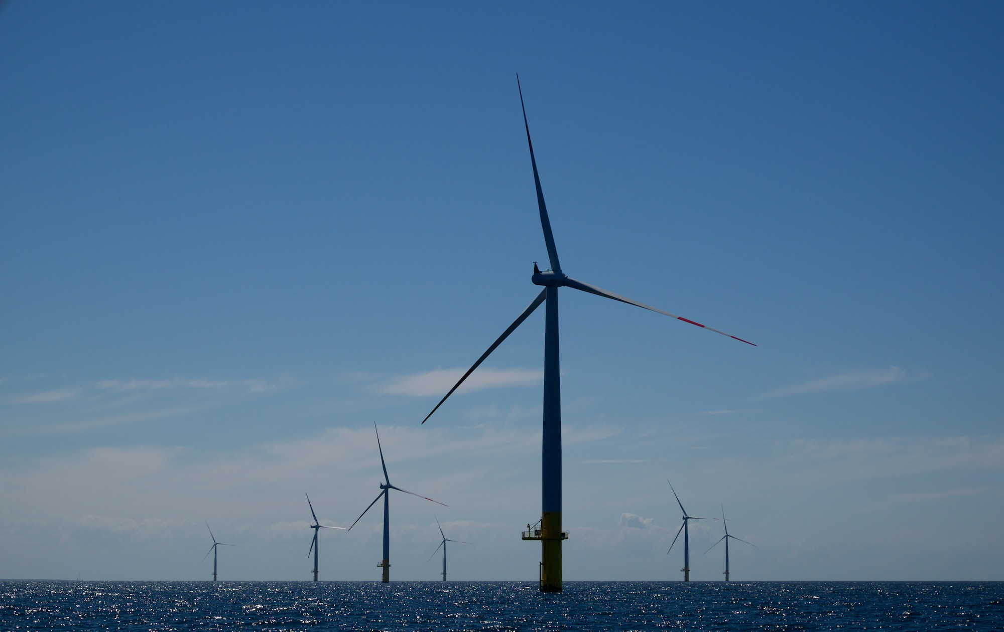 Windpark Baltic 1